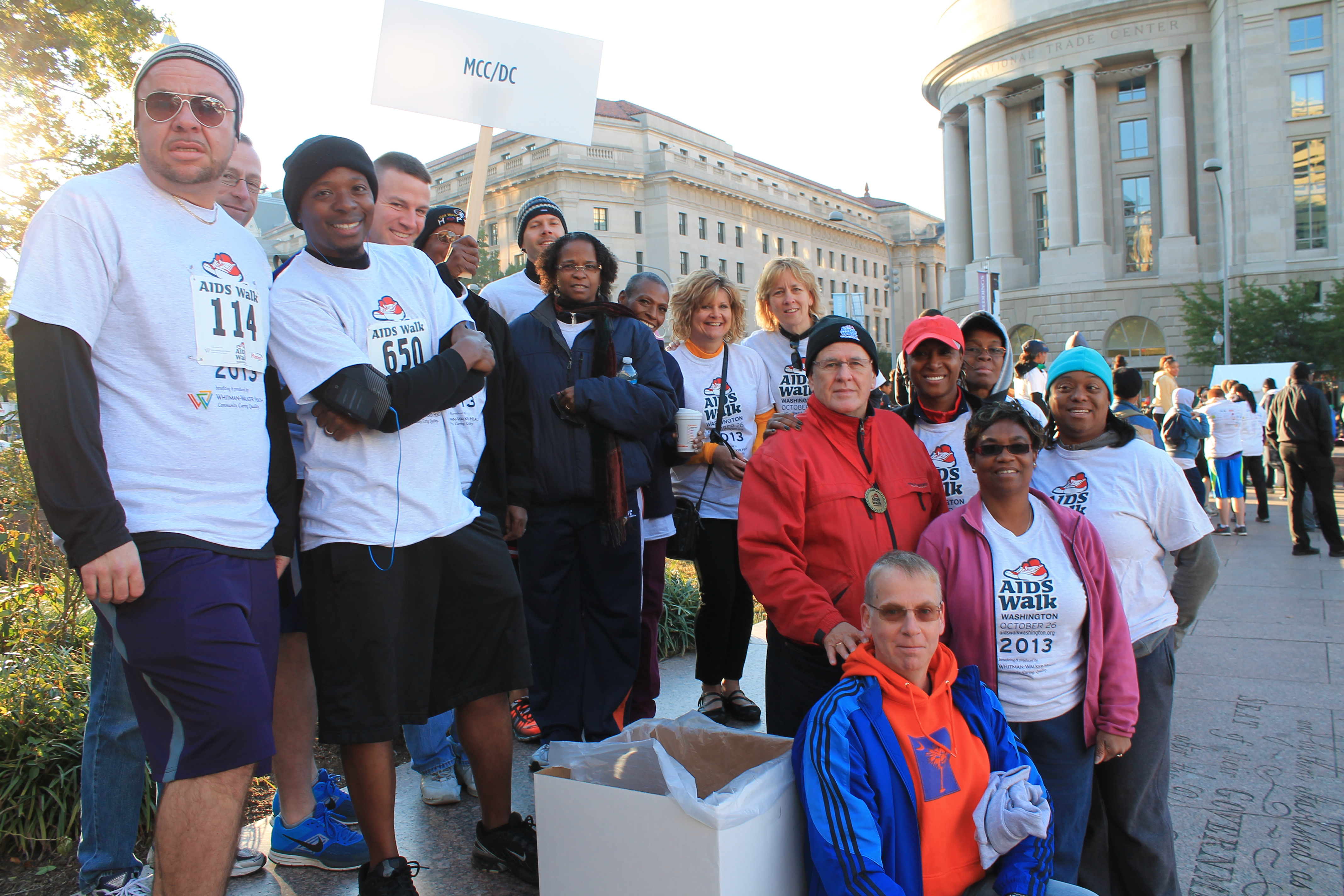 Volunteers from the Metropolitan Community Church of Washington, D.C. attending the 2013 AIDS Walk.